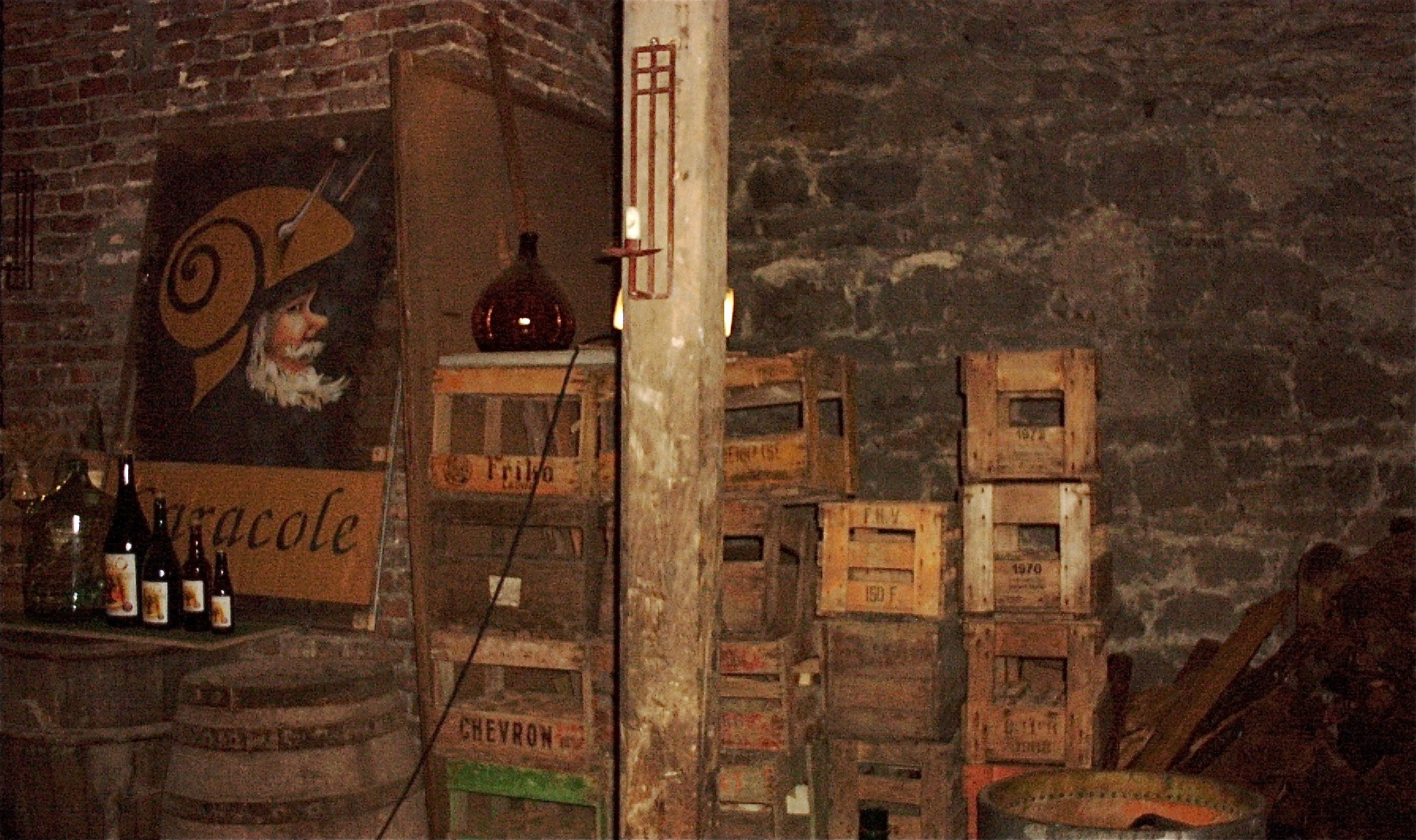 Brewery Caracole interior 2003